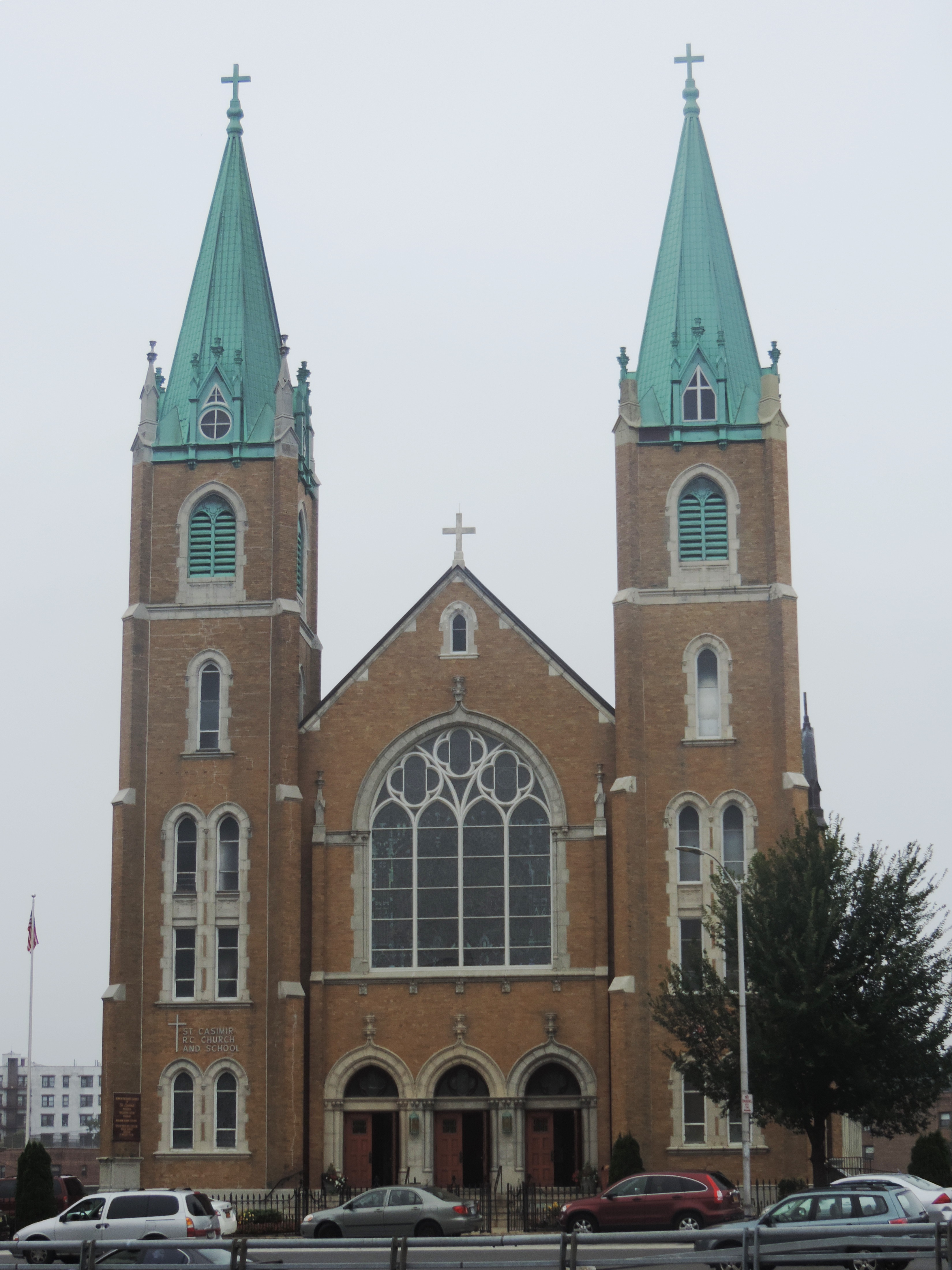 Looking west at church on a cloudy day.